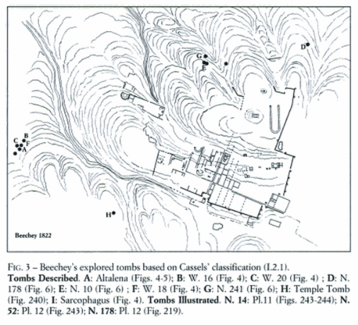 Beechey 1822, excavations Necropolis of Cyrene